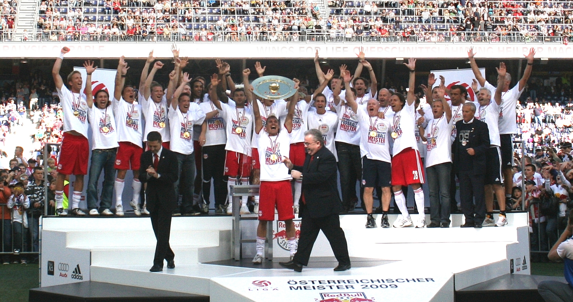 Red Bull Salzburg, the Austrian football champions 2009